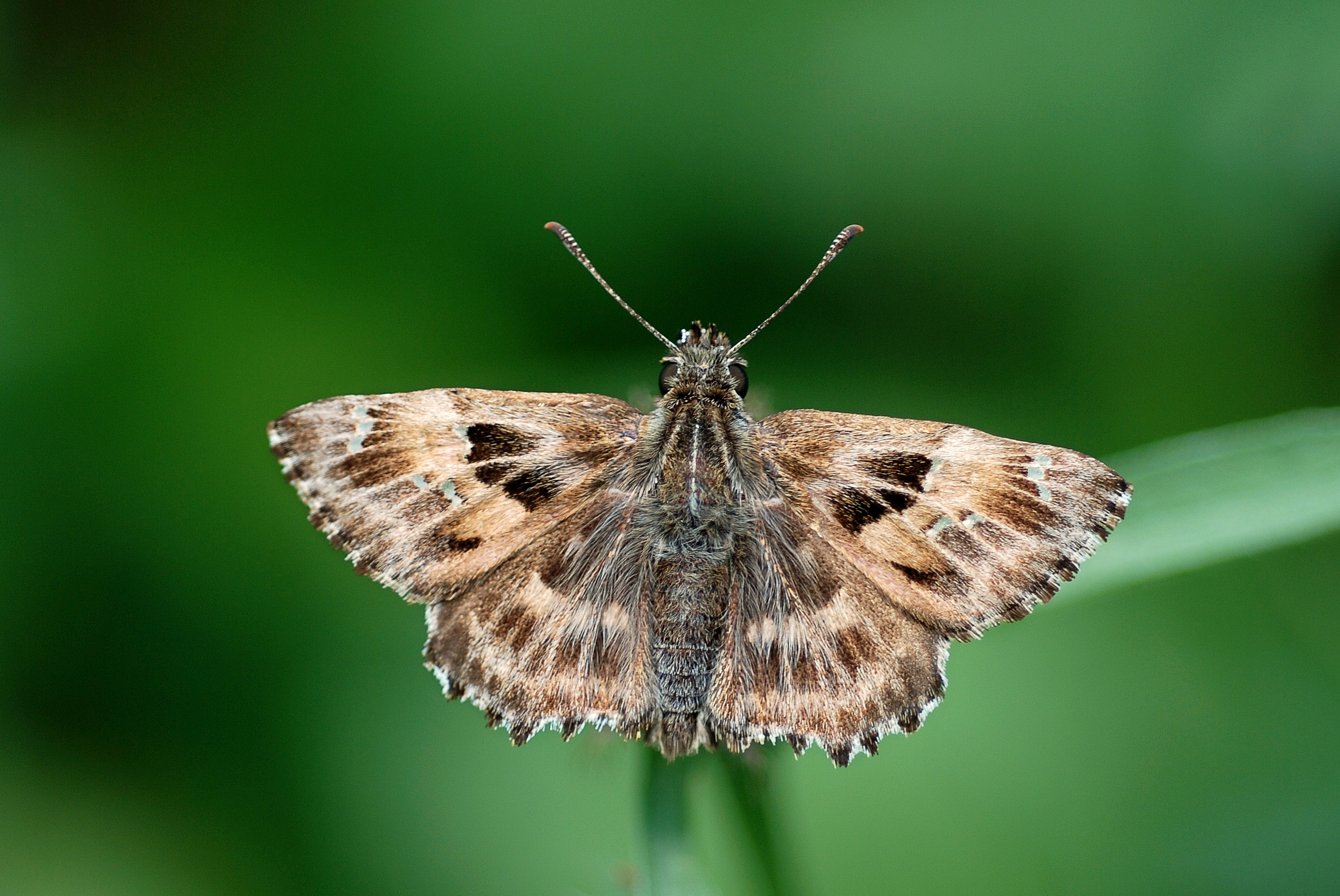 Carcharodus alceae